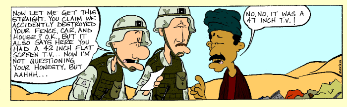 Gunston Street comics is printed weekly in the Stars & Stripes